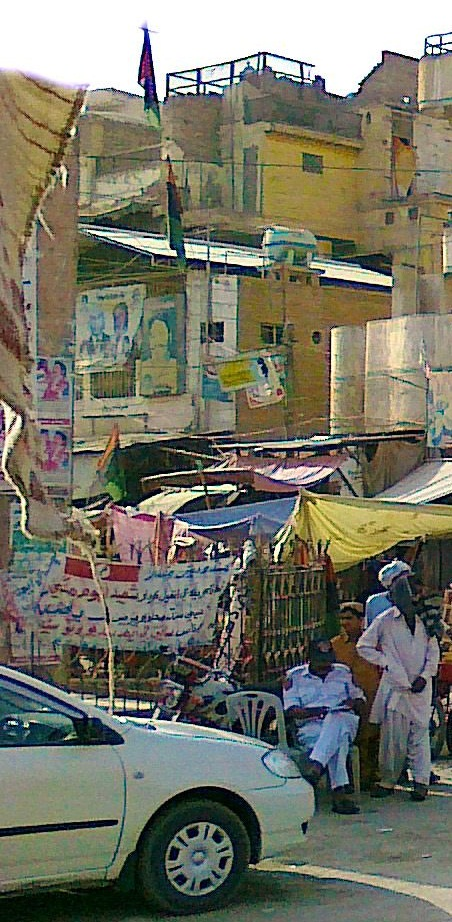 Sindhudesh Banner in Shikarpur city, Sindh. Image is cropped version of File:Deewan hotel.jpg